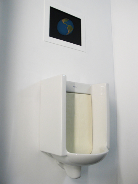 Global Warming is an interactive urinal created by artist Ricardo Carvalho and programmer Alias Cummings.